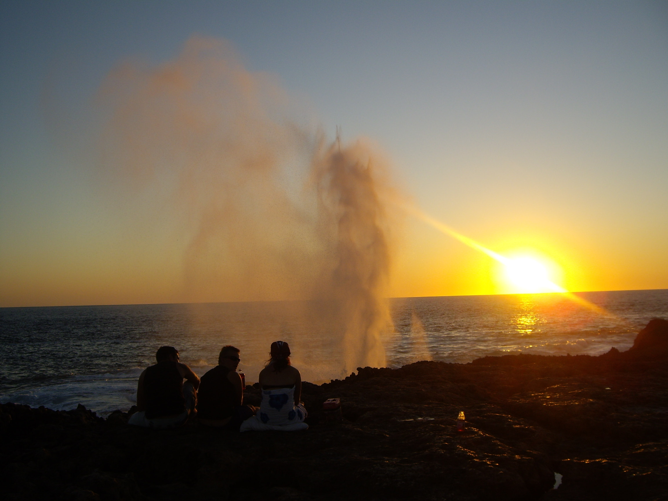 Sunset in Blowholes, Quobba Point, Western Australia.